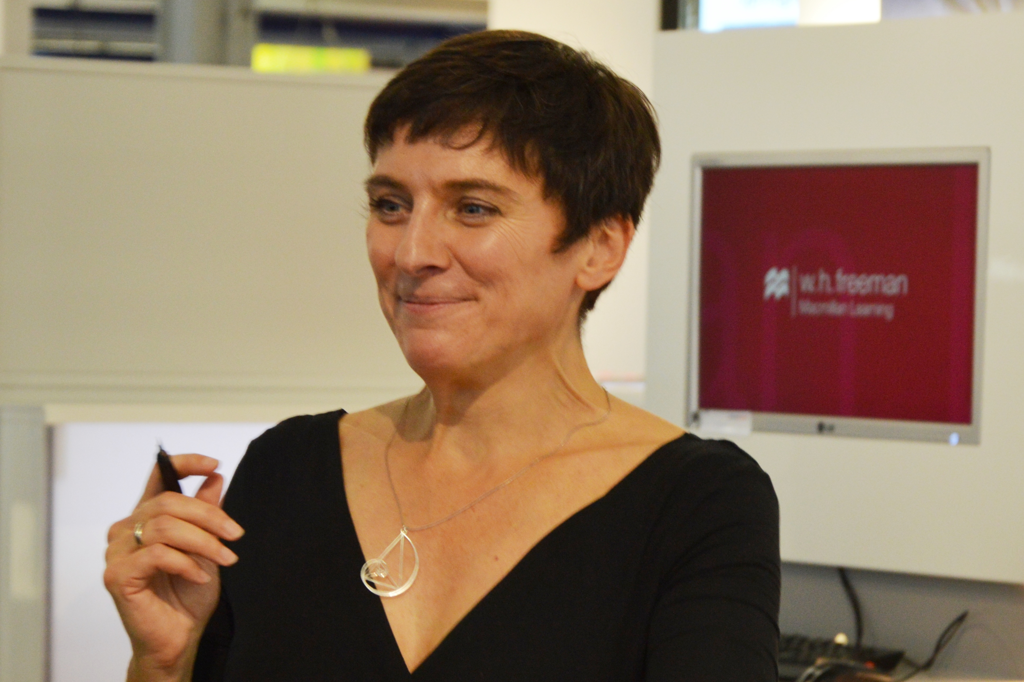 Elisabeth Oberzaucher at Frankfurt Book Fair 2017